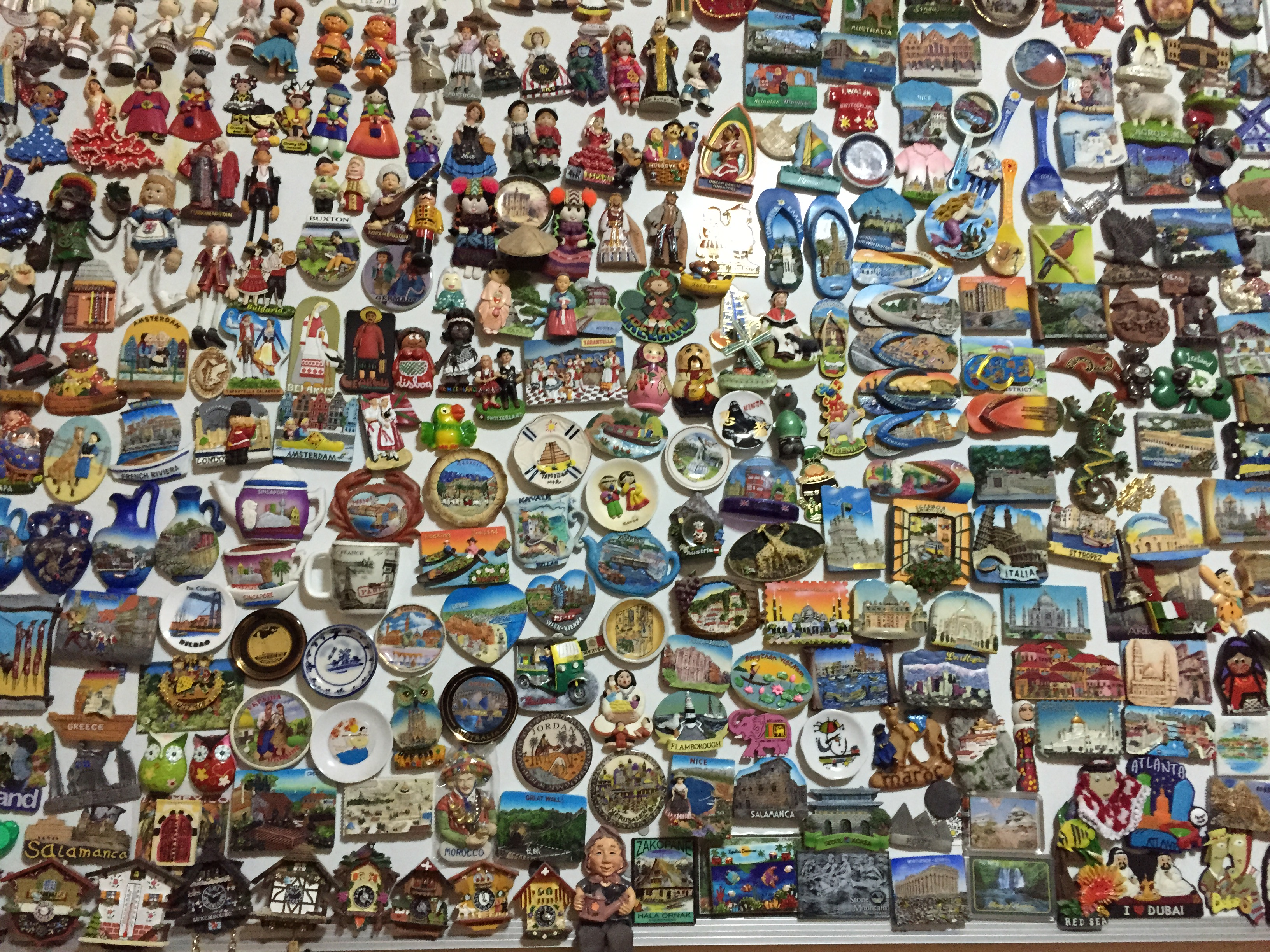 Mervat Salman's collection